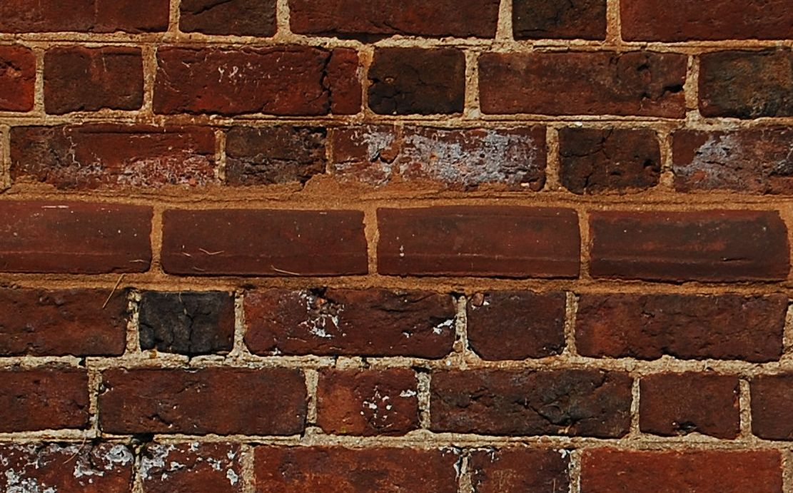 Little Fork Church Brick Detail NE facade